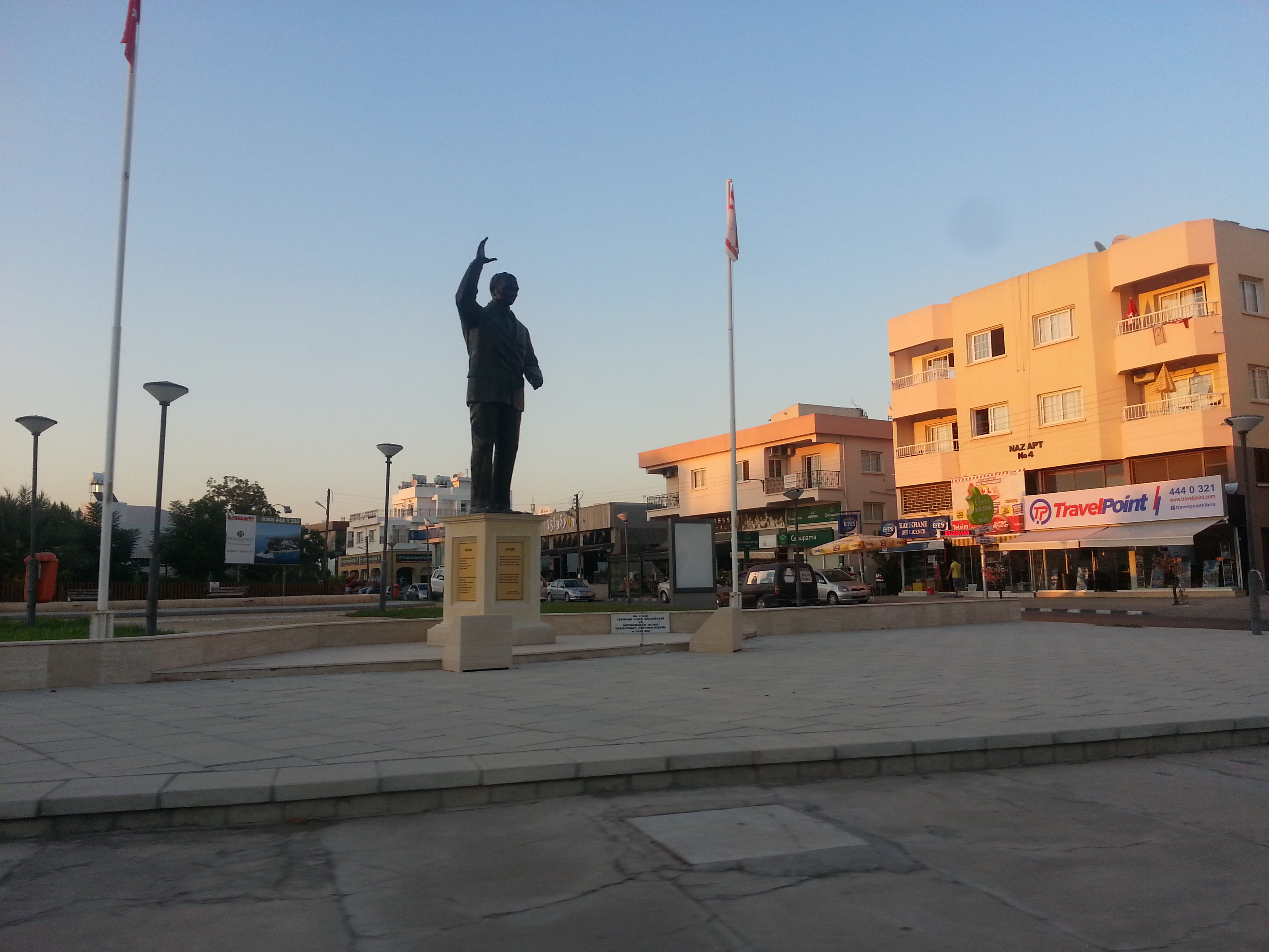 The statue of the former Turkish prime minister Bülent Ecevit in a park-like square in Taskinkoy, North Nicosia